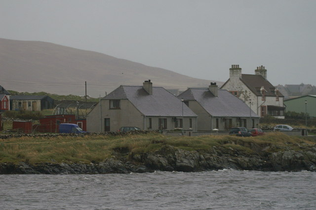 Beach Road, Haroldswick Oil era council houses which are very close to the shore - onshore gales bring stones from the beach into front gardens. Hamarsgarth is the house behind.